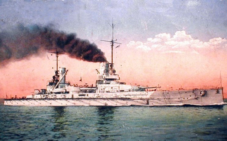 Postcard of the German Kaiser-class battleship SMS Friedrich der Große, circa 1914.